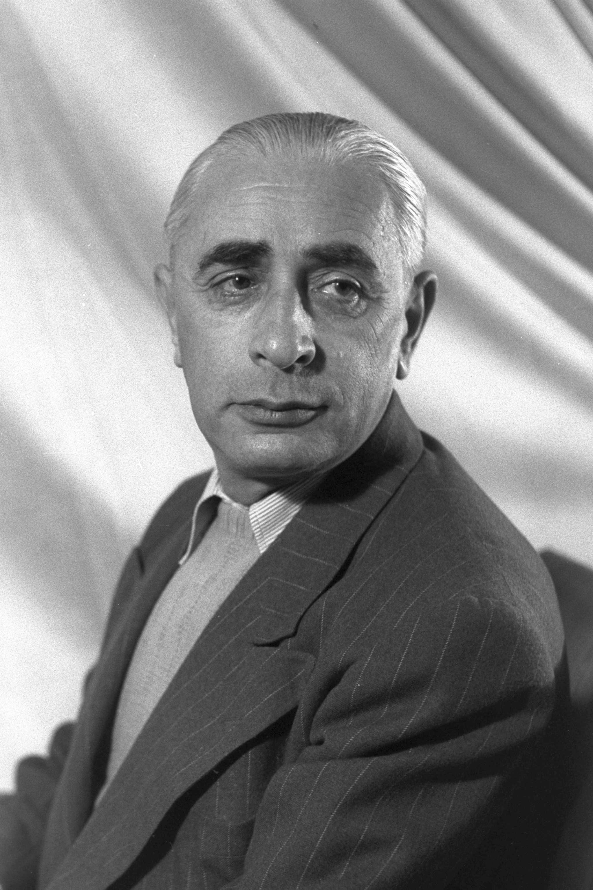 Pinhas Lavon, Mapai party.